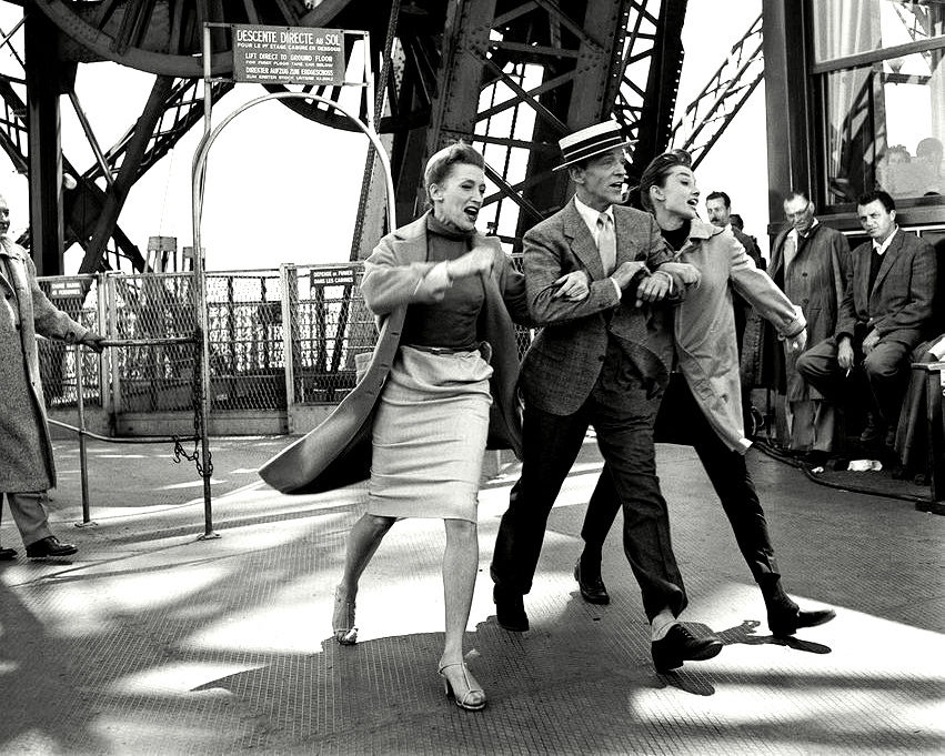 Kay Thompson, Fred Astaire, and Audrey Hepburn in a publicity photo from the Paramount Pictures 1957 film Funny Face.